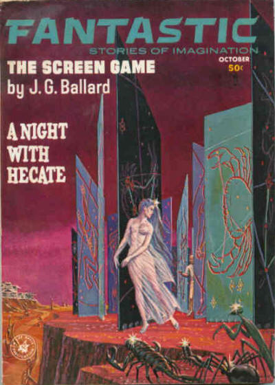 Cover of Fantastic, October 1963